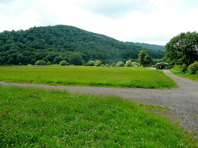 Monmouthshire Show ground 1 Looking south-west from the A466 with Livox Wood on the hillside on the other side of the Wye.